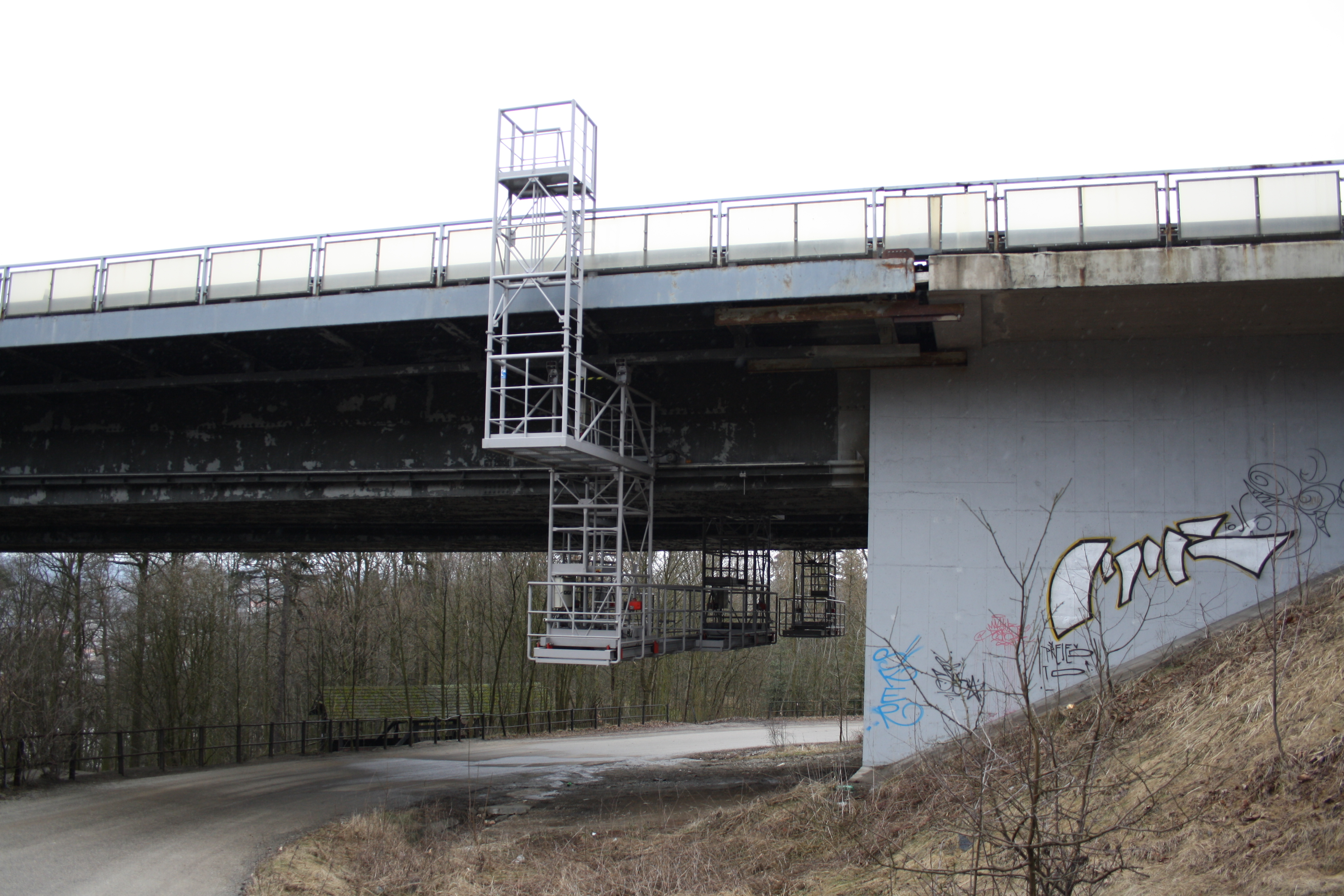 Bridge repair platforms on bridge Vysočina.